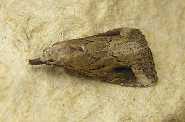 Schrankia costaestrigalis